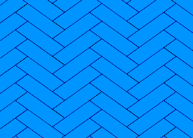 herringbone pattern